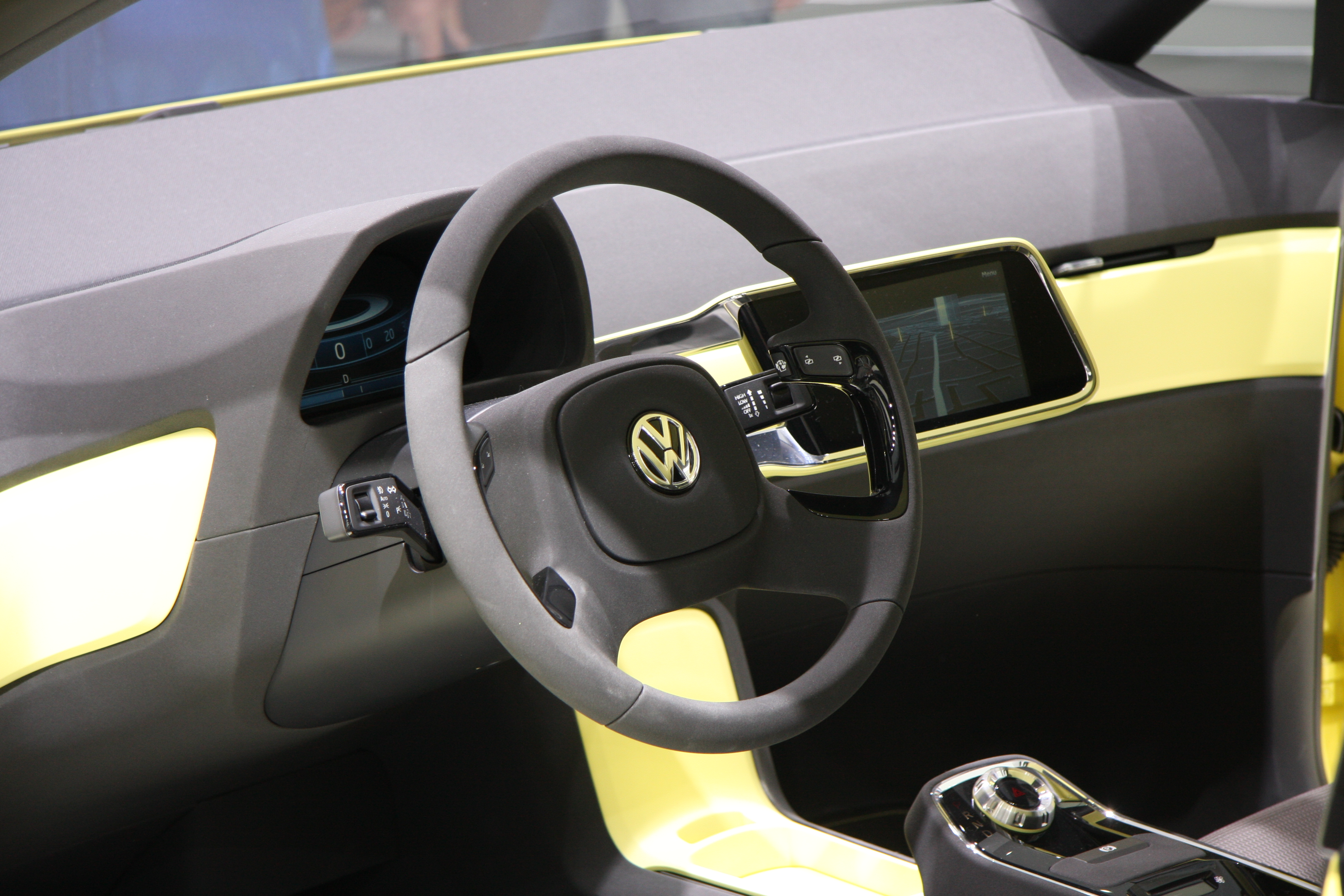 Cockpit of the VW E-Up! as presented at the IAA 2009 in Frankfurt/Germany